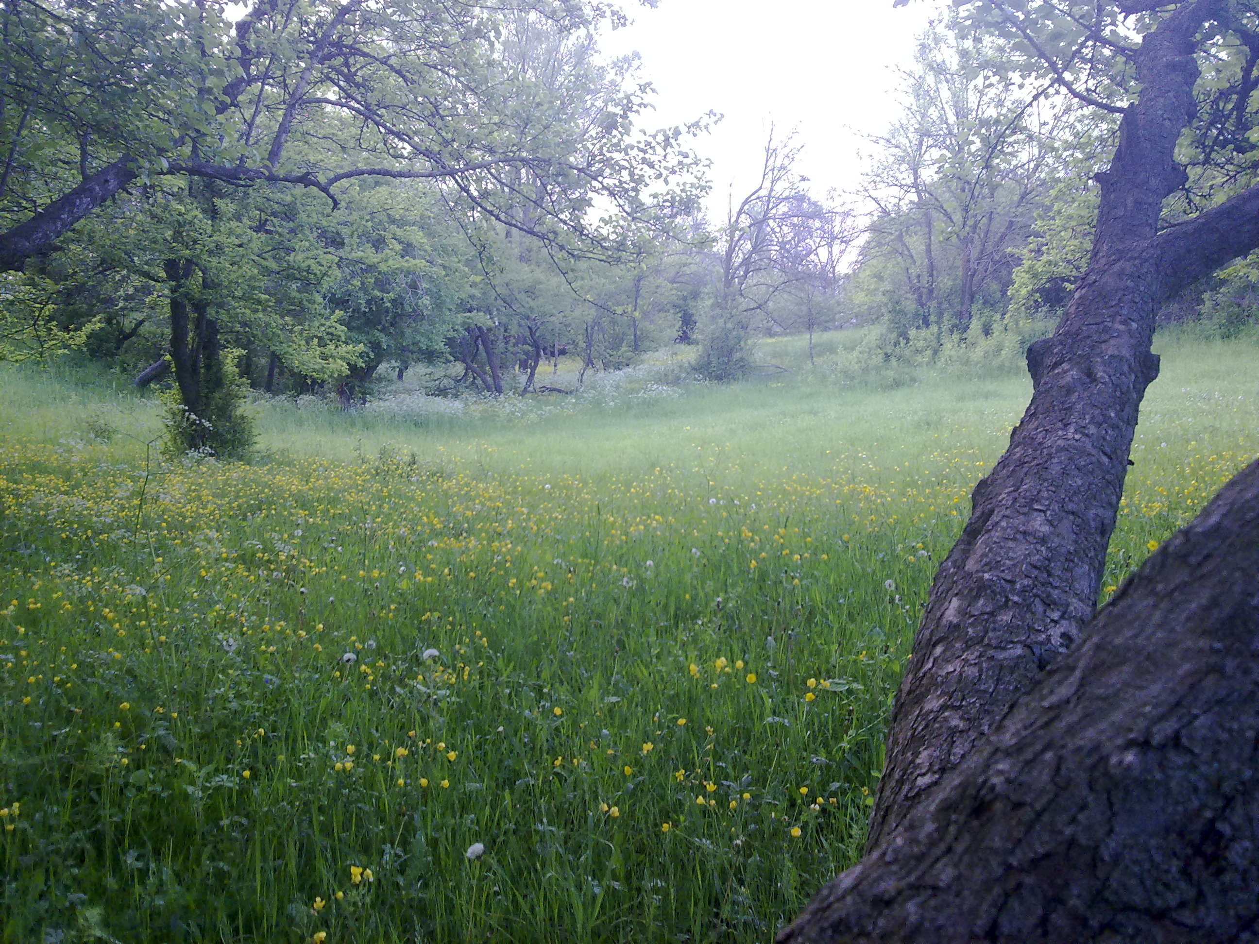 Davud Bay Garden